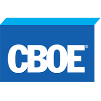 CBOE Logo File